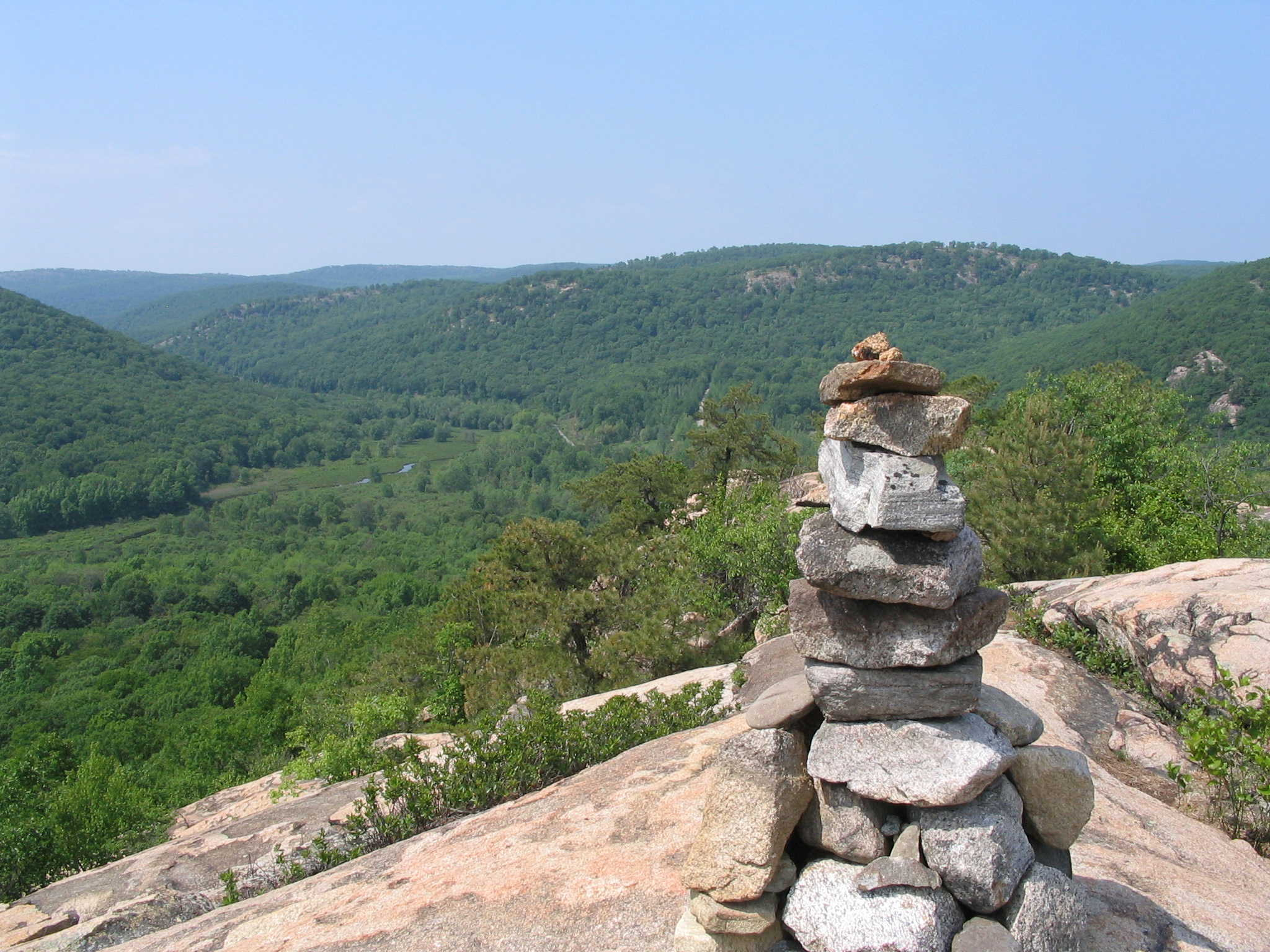 Memorial at the top of Popolopen Torne.